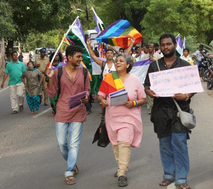 Anjali Gopalan, Gopi Shankar of Srishti Madurai during Asia's first gender queer pride parade in Madurai.